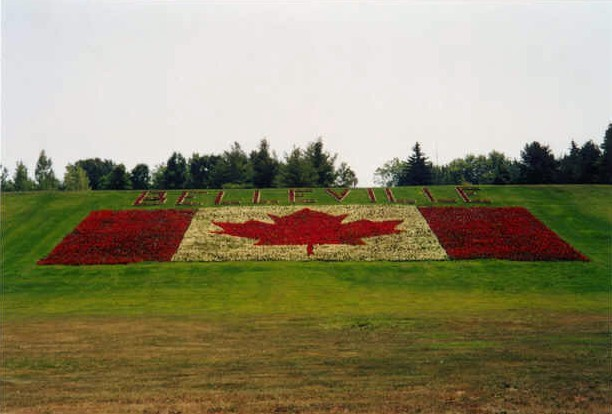 A flowerbed beside the highway 401 near Belleville, Ontario showing the flag of Canada (2001)